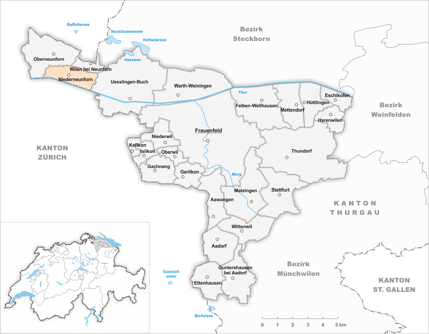 Municipality Niederneunforn